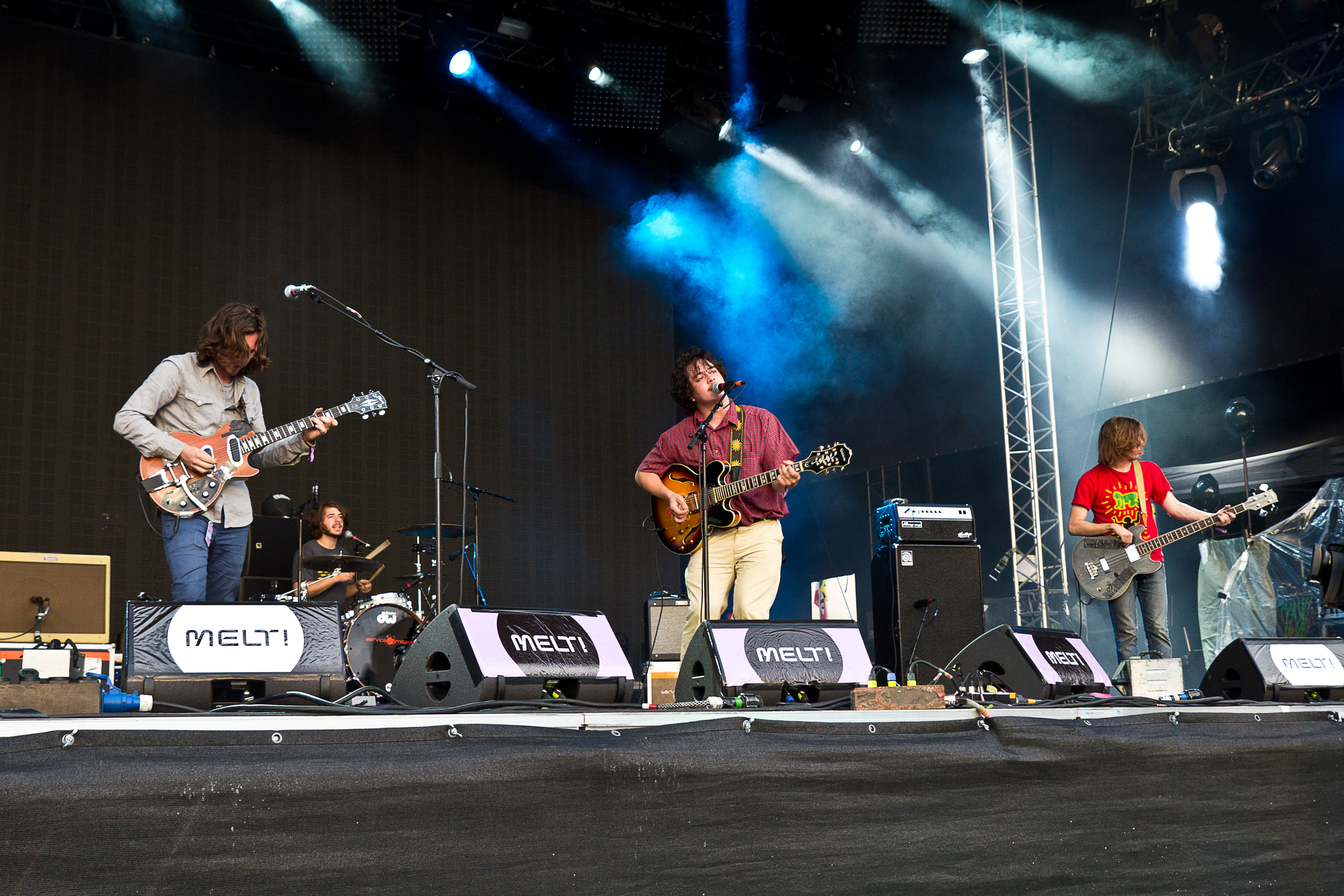 The American indie rock band The Districts at the Melt! 2015 in Ferropolis/Germany.